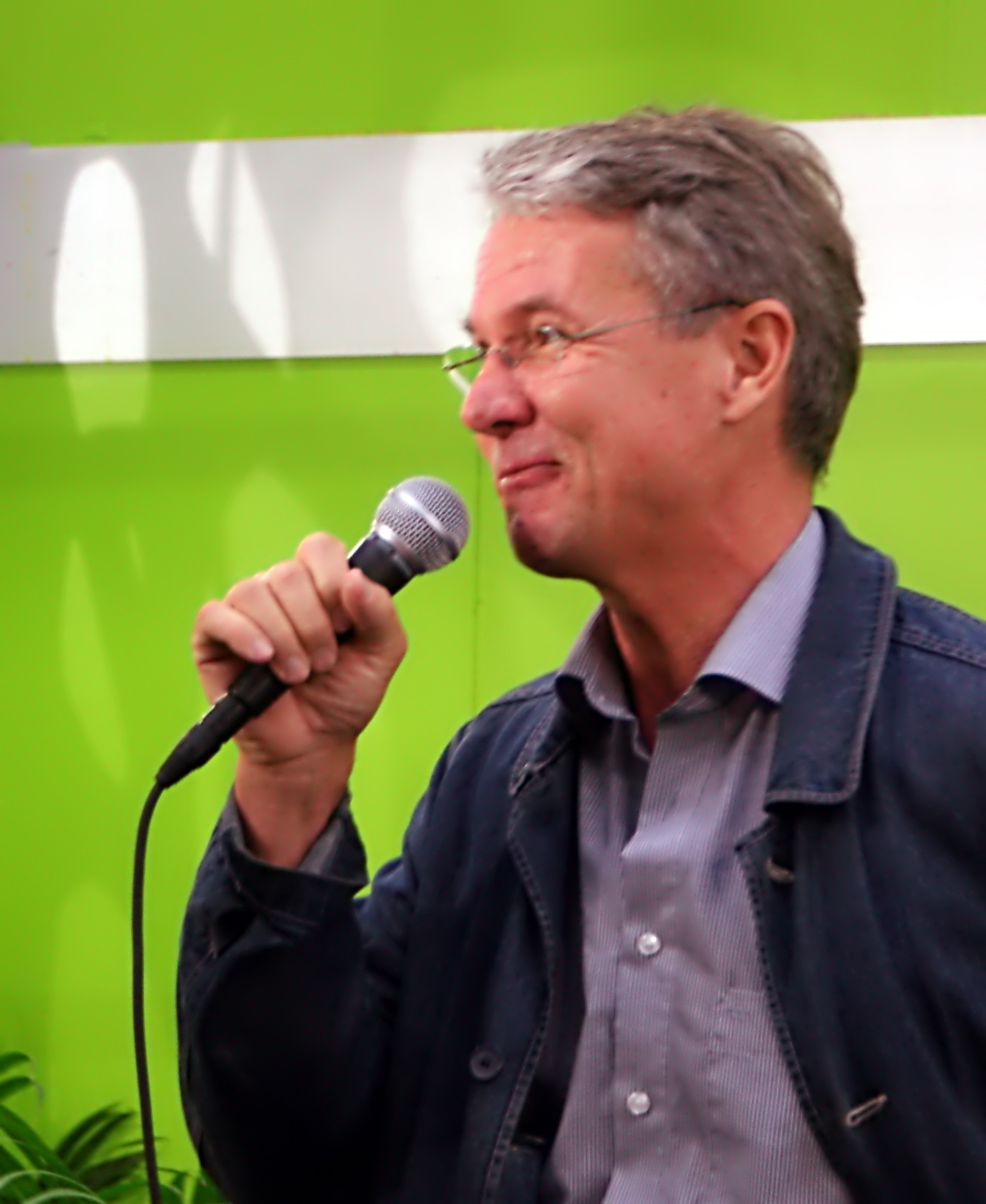 Lars Krantz, Swedish gardener and writer.